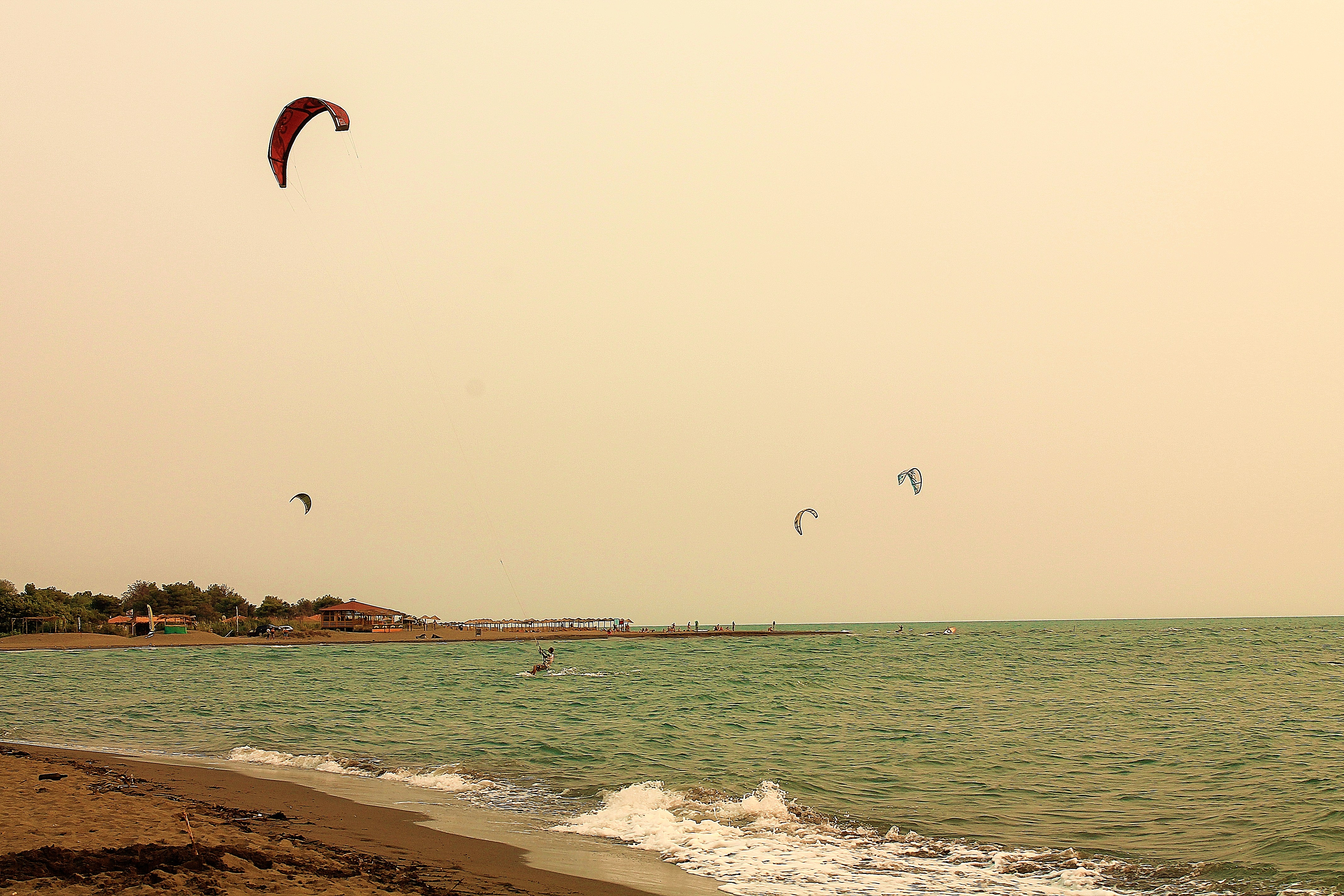 Dolcinium